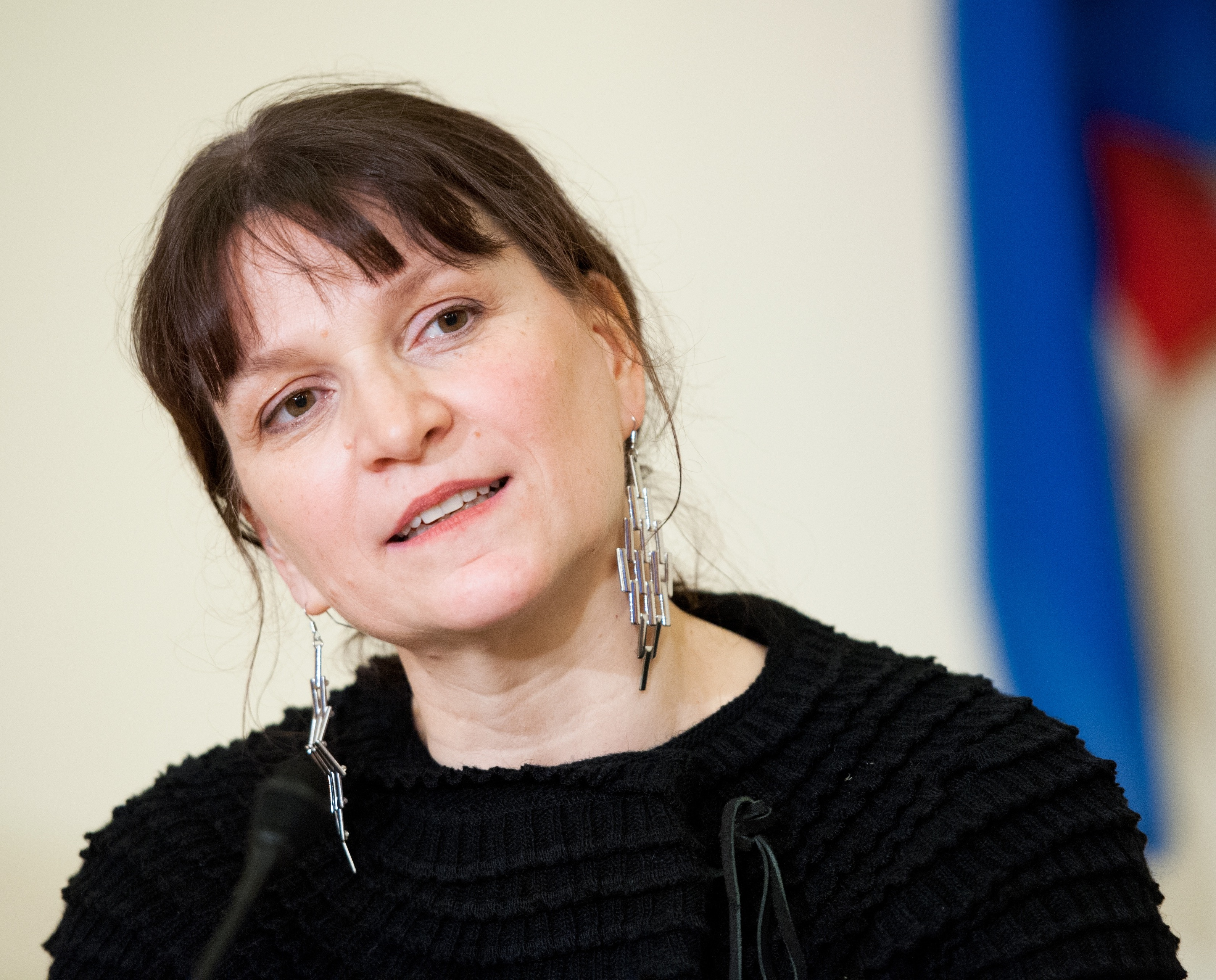 Norwegian writer Merethe Lindstrøm, winner of the 2012 Nordic Council's Literature Prize.